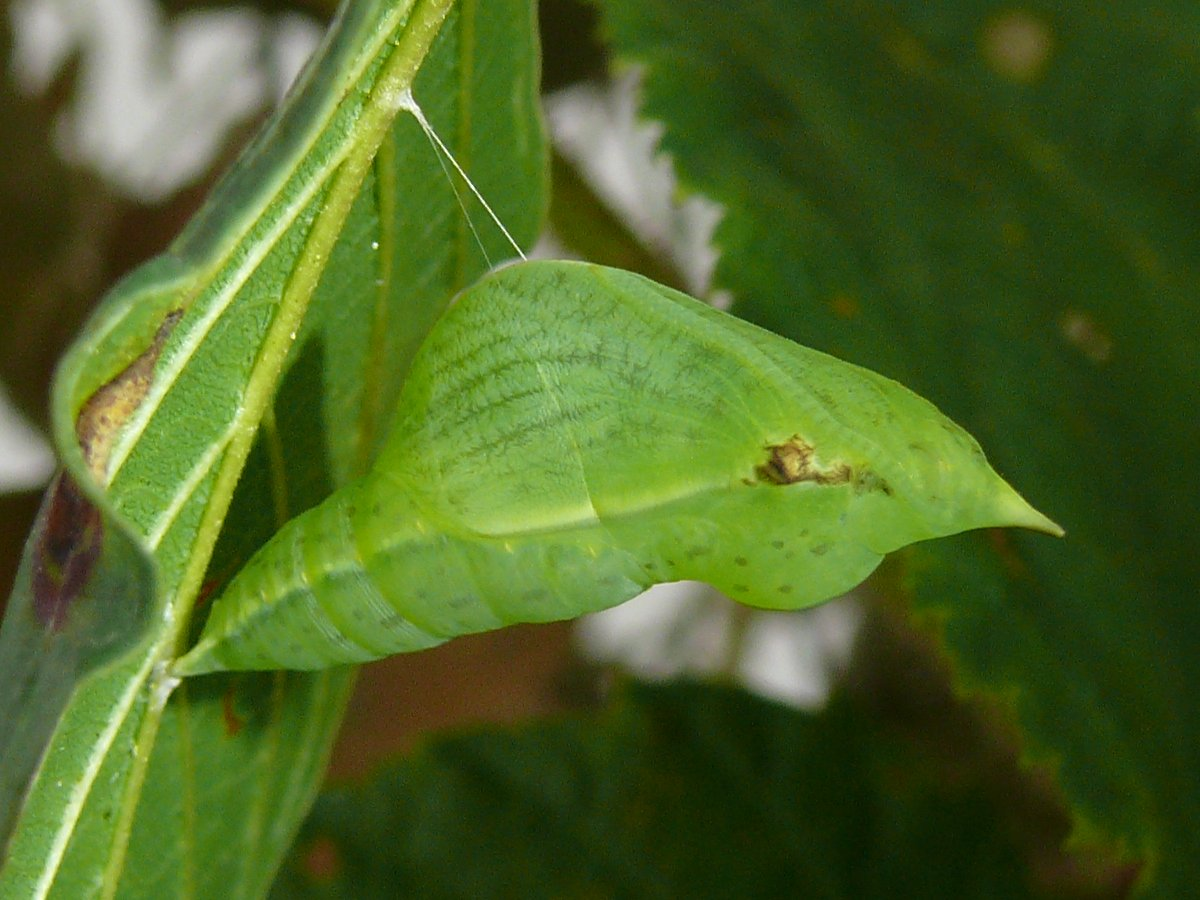 Pupa of Common Brimstone